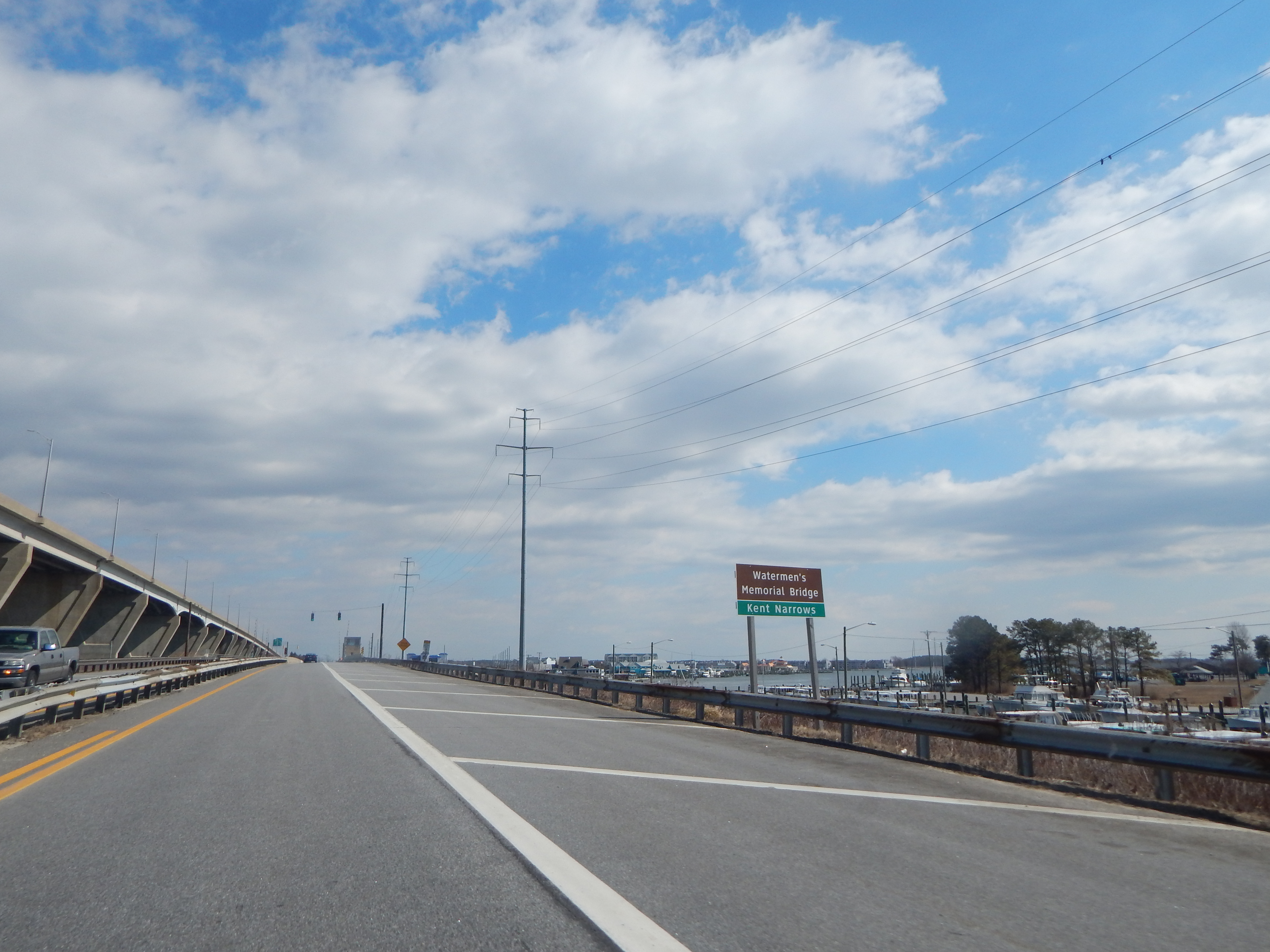 Queen Anne's County, Maryland